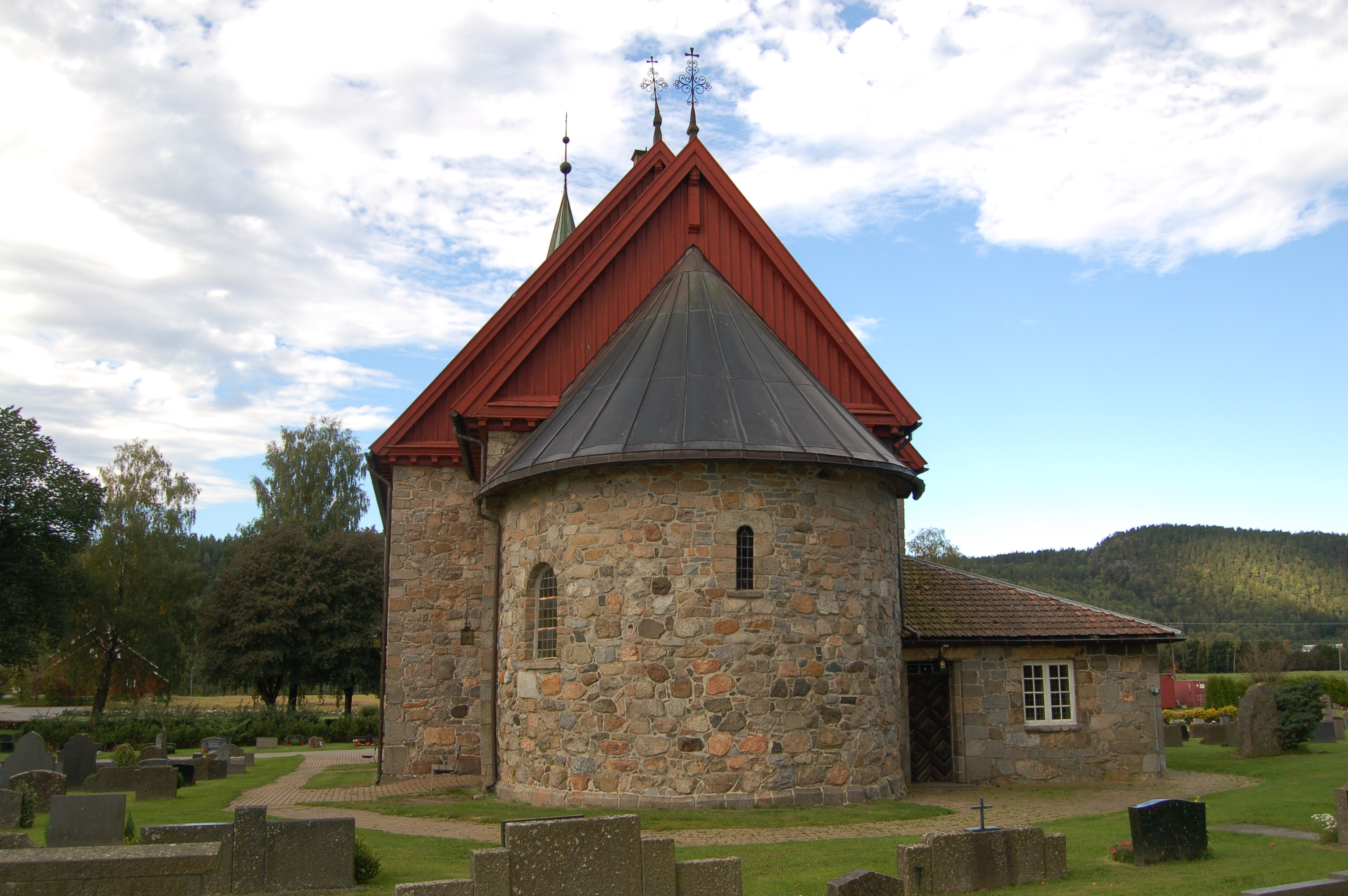 Hedrum Church, Larvik, Norway